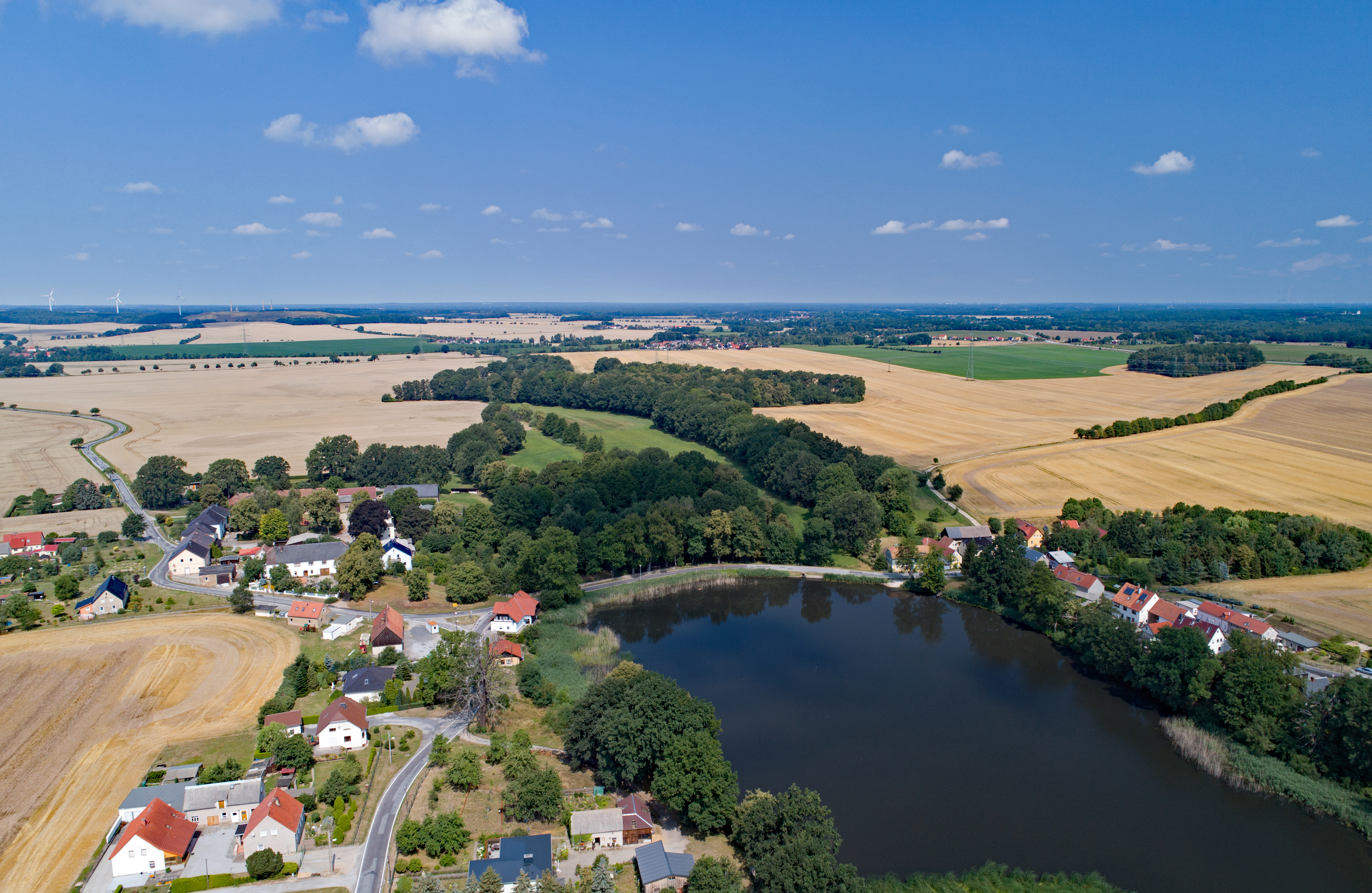 Milkwitz (Radibor, Saxony, Germany) Hornjoserbsce: Powětrowy wobraz Miłkec